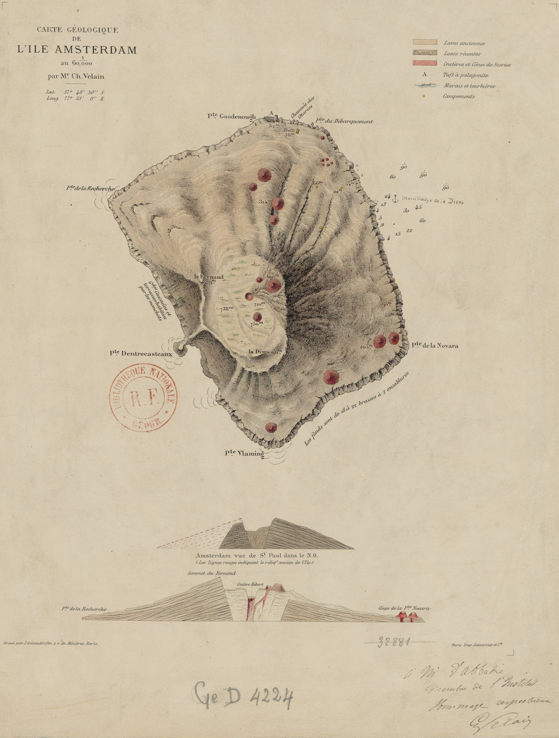 19th century geological map of Amsterdam Island, a French island located in the southern Indian Ocean, belonging to the French Southern and Antarctic Lands (TAAF).